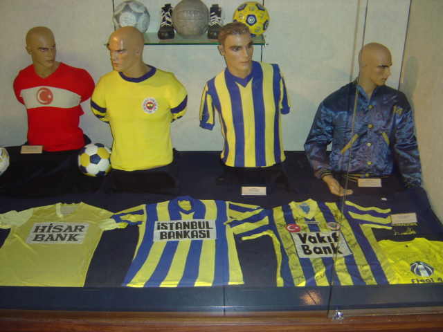 Historic shirts of Fenerbahce. Picture is taken at the Fenerbahçe Museum (it's ok to take pictures here).